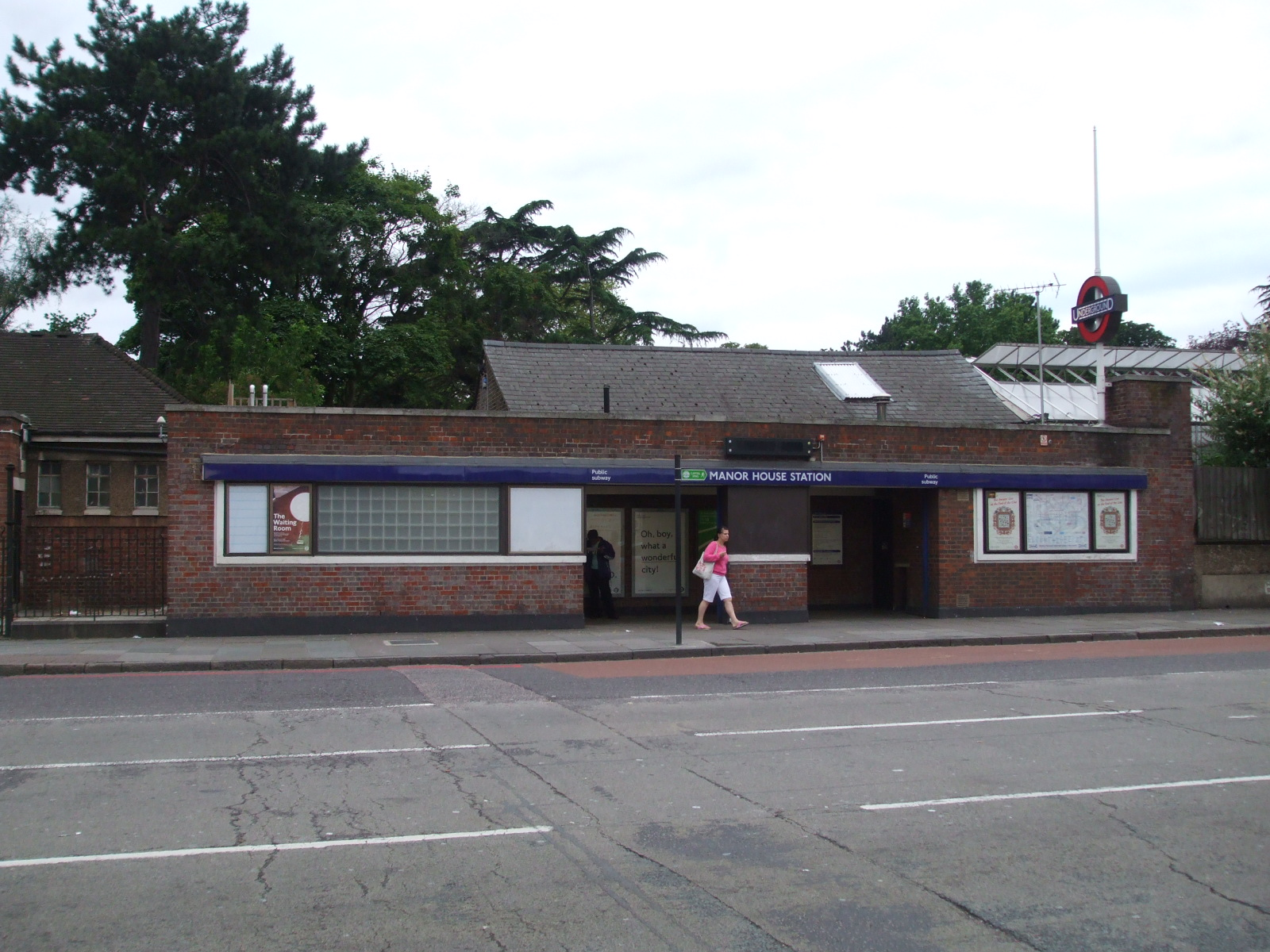 Manor house tube station main entrance, to the northwest of the A105 Green Lanes/A503 Seven Sisters Road junction. However the ticket office is below ground